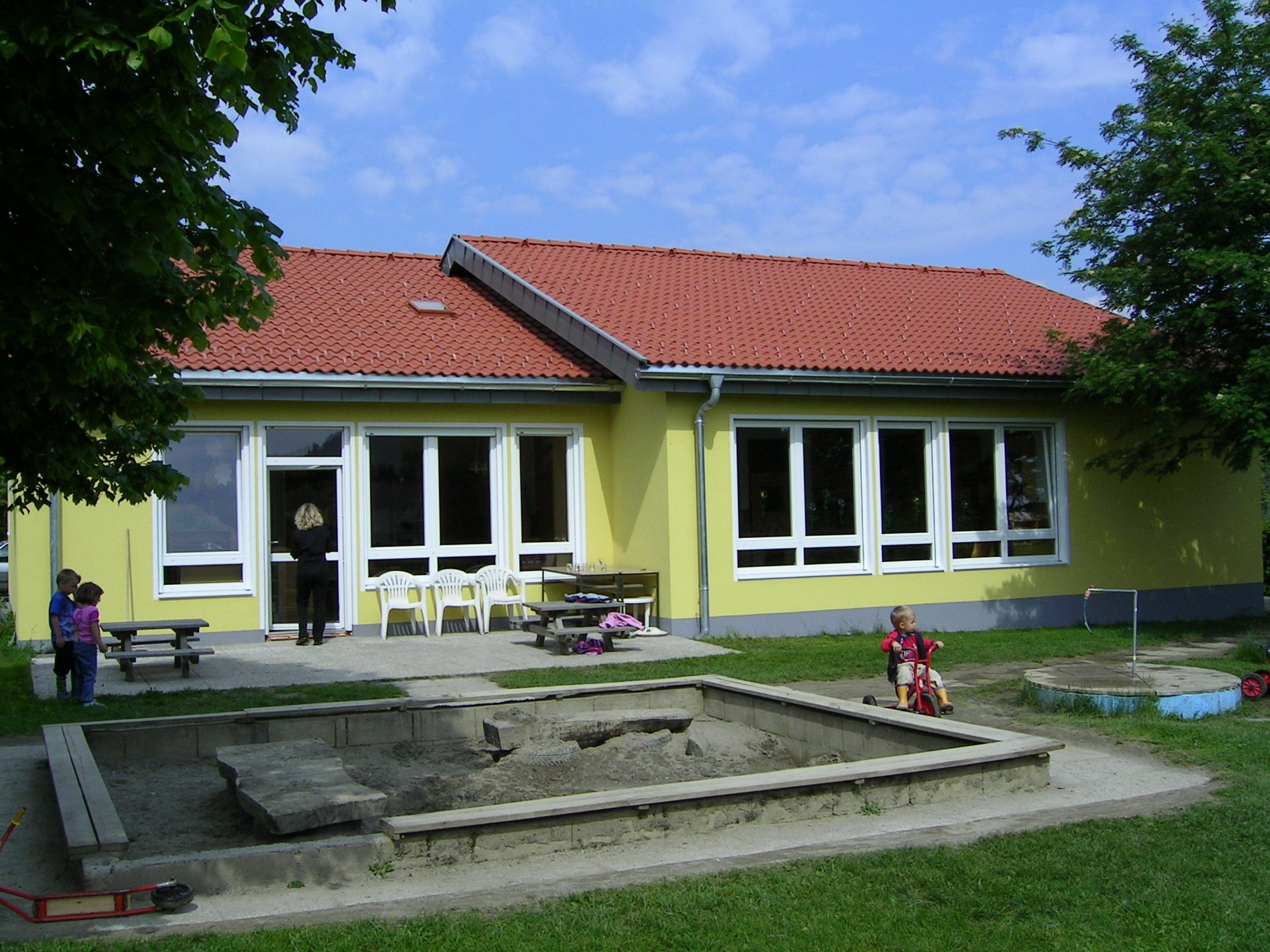 Slovenian / bilingual Kindergarden "Minka" in Schiefling / Škofiče, Carinthia/Austria